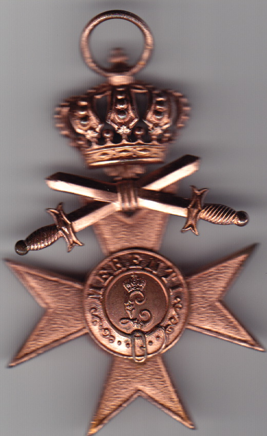 Alex Ichenhauser was born into a German Jewish family and lived in Furth in Bavaria. He served with the 14th Bavarian Infantry Regiment (10th Company) in 1917/18 at the Somme, Flanders and Cambrai. He was awarded the Bavarian Military Merit Cross 3rd Class with Crown and Swords (see photos). He was later forced to leave Germany in 1939, selling the artists brush factory which had been in the family for 100 years for a knock-down price to the factory foreman. He managed to obtain the funding and guarantees necessary to settle in England. Contributed by his daughter-in-law, Margaret Ingram. [Contributed via Age Exchange ( as part of the Children of the Great War project ( at a collection day at RAF Hendon, UK on 20/11/2014. To see all material contributed by Age Exchange, or to see more contributions from this collection day, follow the links at - For further information ]